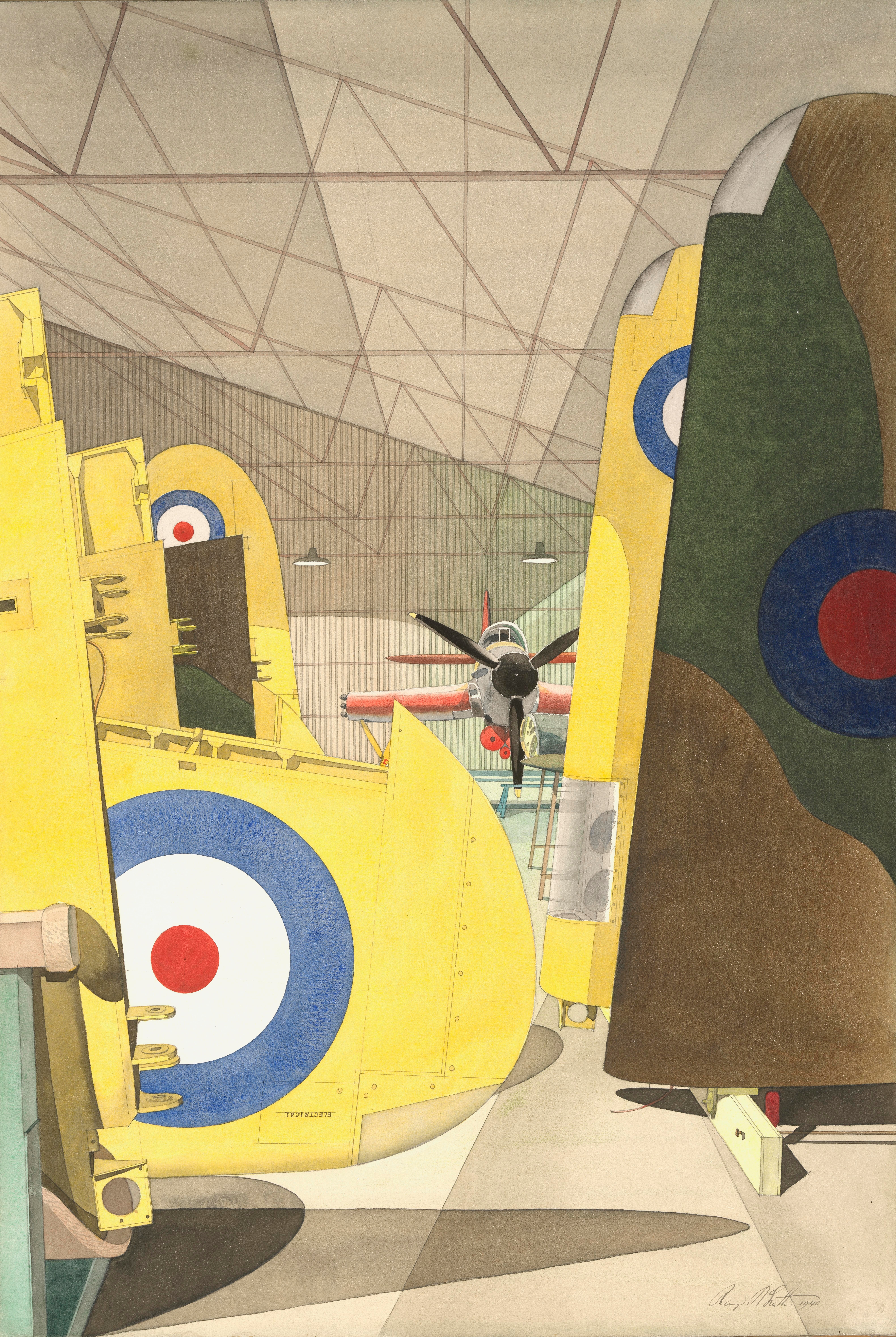 Interior of a hanger showing new built aircraft wings each painted yellow. A partially assembled aircraft is to the rear.